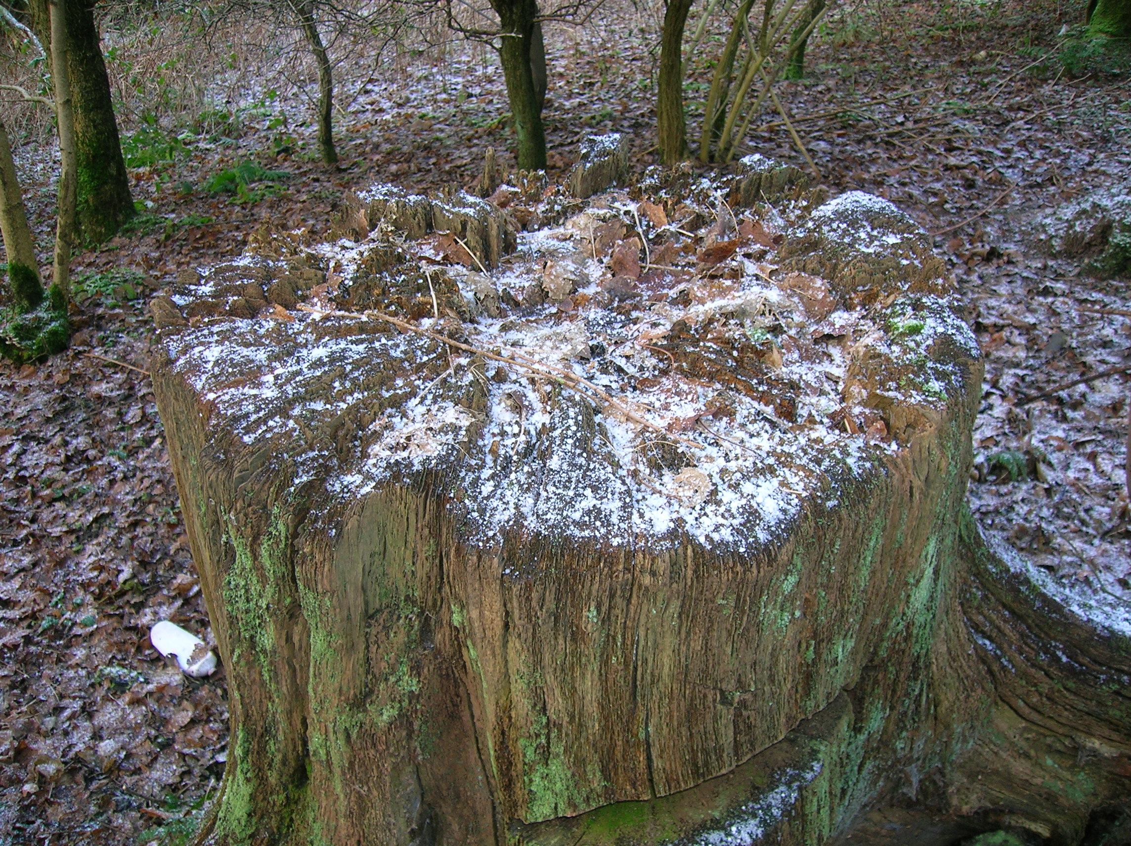 A Plucking Post at the DRukken Steps, Irvine, North Ayrshire, Scotland